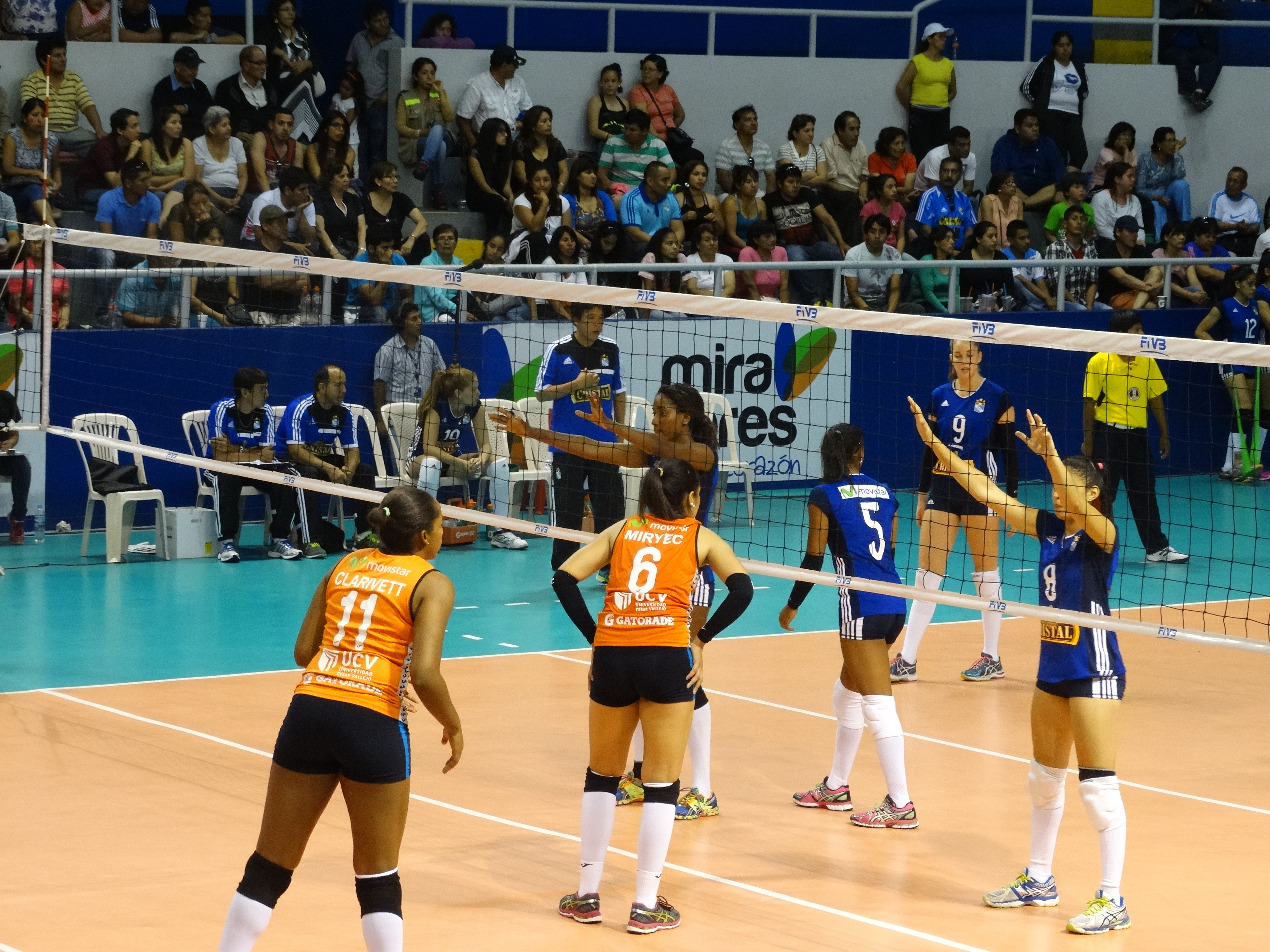 Volleyball match between Sporting Cristal and Cesar Vallejo